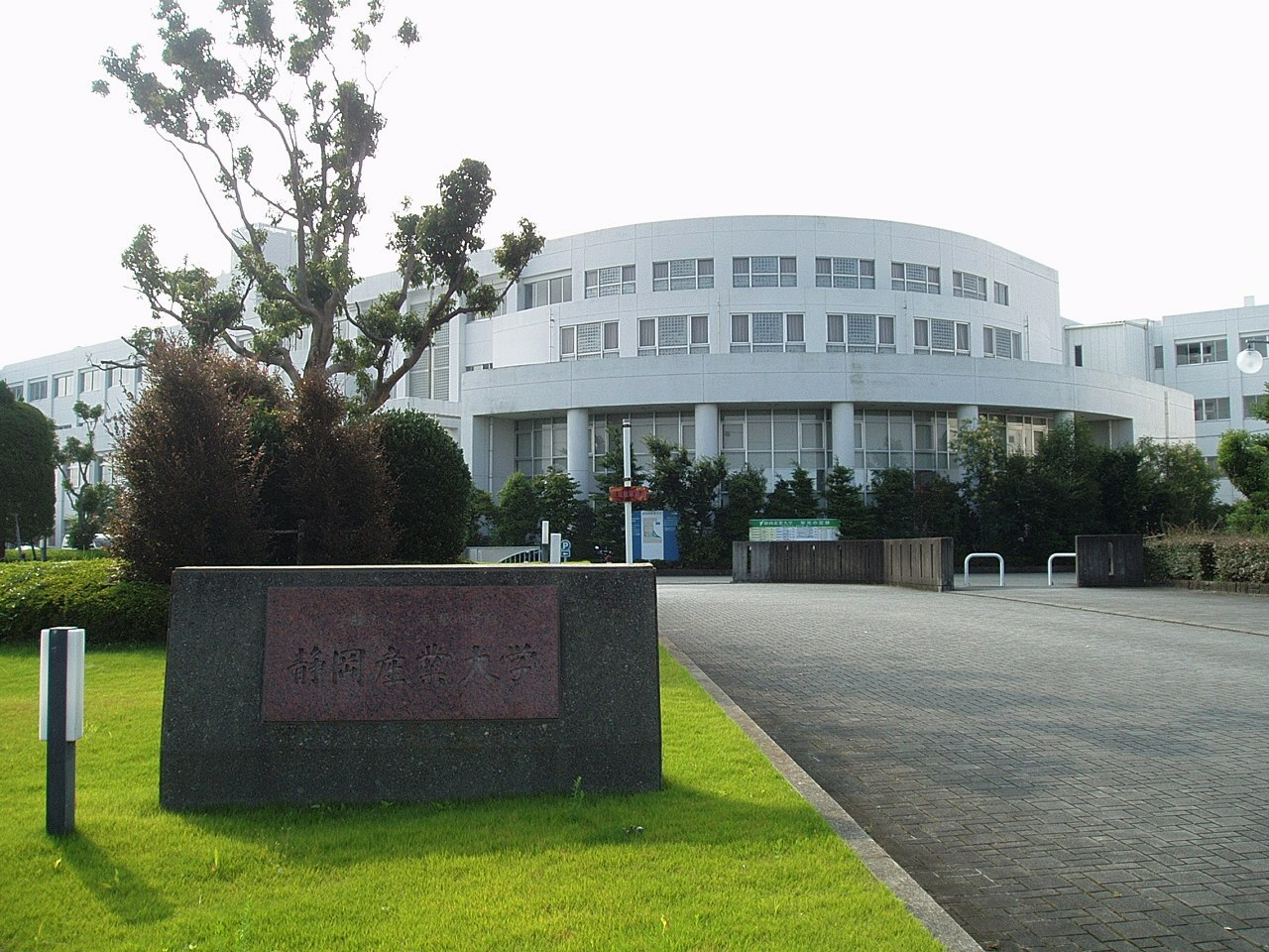 Main entrance to Iwata Campus, Shizuoka Sangyo University, located in Iwata, Shizuoka, Japan.